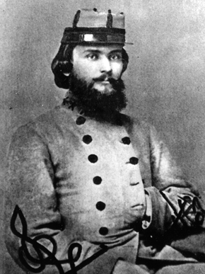 Governor of Alabama William Calvin Oates. Screen capture from documentary "Civil War Combat: America's Bloodiest Battles" (1998) produced by the History channel